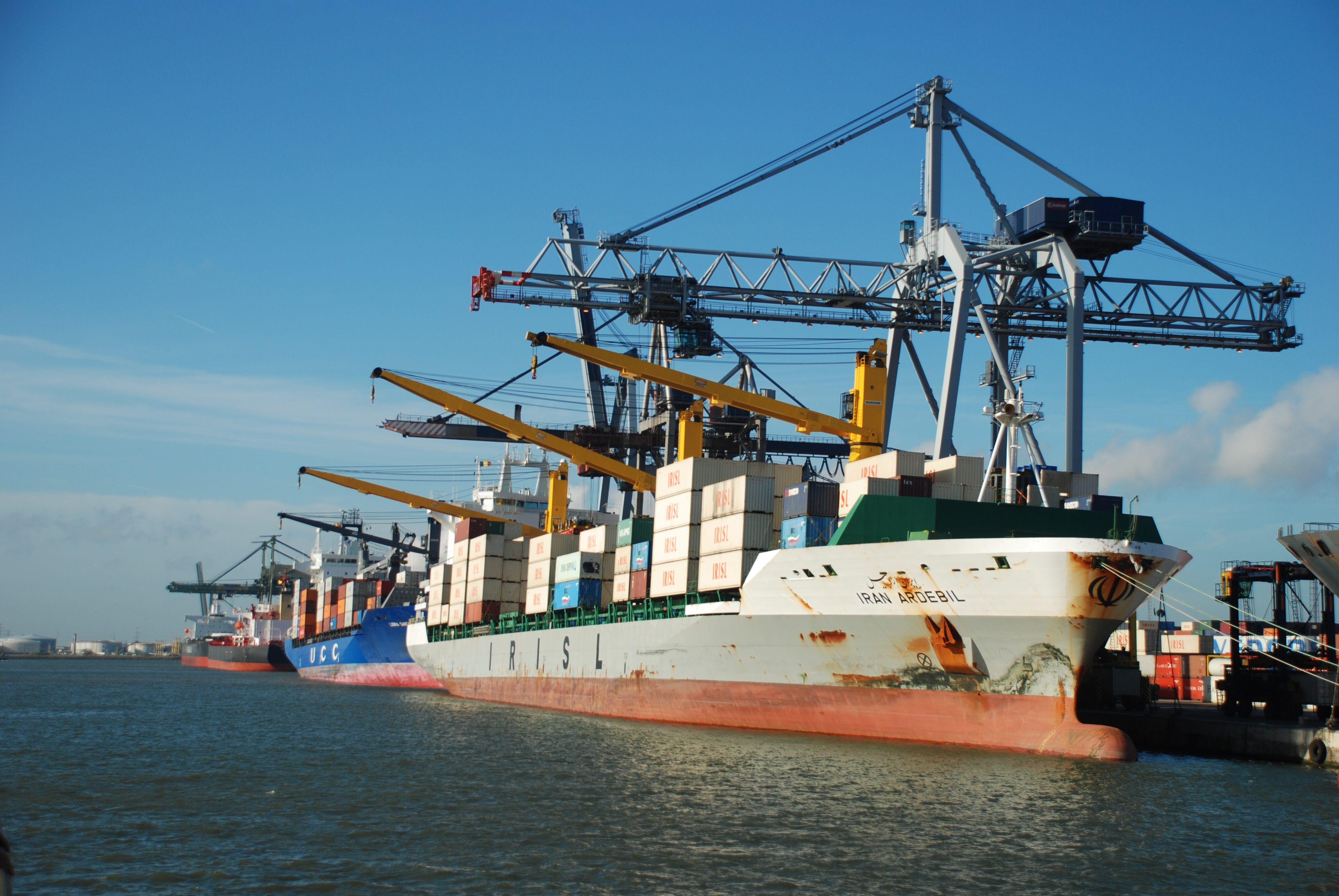 The IRAN ARDEBIL in Port of Antwerp. IMO Number: 9284154